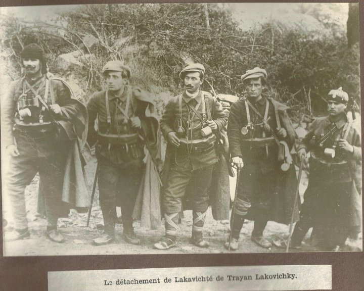 Cheta of IMRO voevoda Trayan Lakavishki, second from left is Vlado Chernozemski